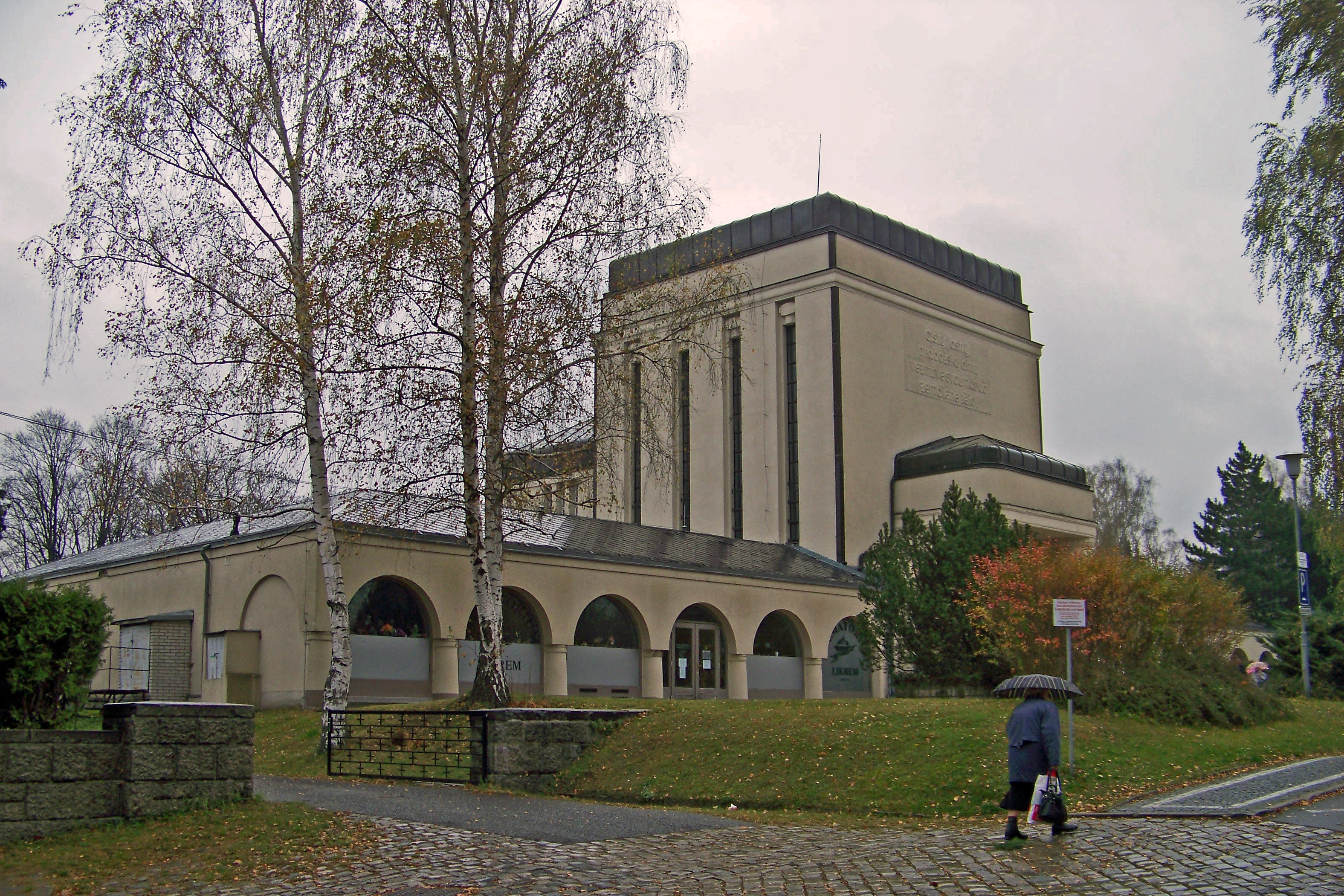 Liberec IV-Perštýn, Liberec District, Liberec Region, Czech Republic. U Krematoria 460/7, a crematorium.